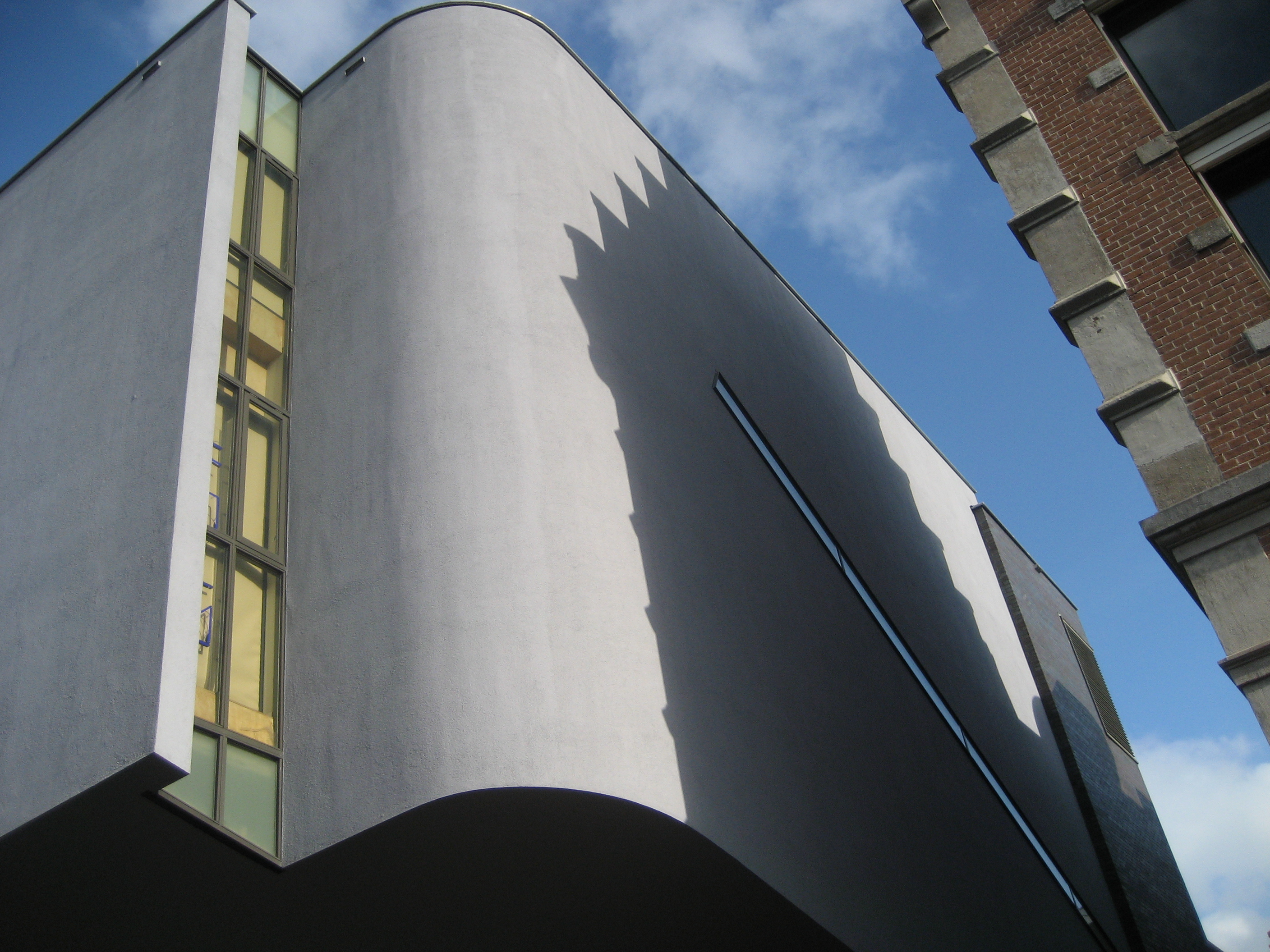 Toneelschuur, theatre in Lange Begijnstraat, Haarlem (The Netherlands). Design: Joost Swarte